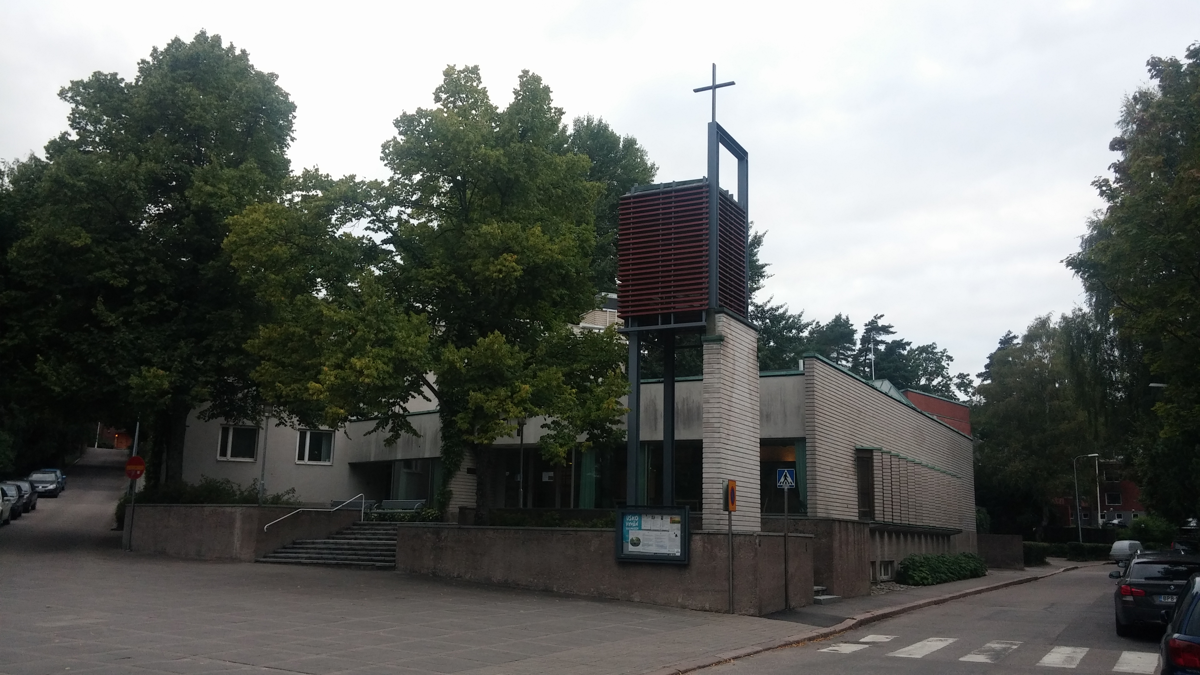 Munkkiniemen kirkko